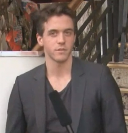 Featuring a hot Aussie cast, BLAME was filmed in the Perth hills in early 2010. The film stars Damian de Montemas (The Secret Life of Us, Underbelly: Tale of Two Cities), Sophie Lowe (Beautiful Kate, Blessed), Kestie Morassi (Wolf Creek, Dirty Deeds), Simon Stone (Jindabyne, Balibo), Mark Winter (Balibo, HBO’s The Pacific), Ashley Zukerman (Ch 10’s Rush and HBO’s The Pacific). Directed by Michael John Henry (Without a Sound). Seeking retribution for a past crime, a group of young friends invade a man’s home and set out to fake his suicide. When their plan is bungled secrets and lies are exposed that force the group to question each other’s motives. The BLAME premiere hits Perth hot on the heels of a successful screening in Cannes at the 2011 Festival where it was picked up by many international buyers and festivals. The film has screened around the world in the festival circuit - Toronto in 2010, Melbourne International Film Festival in 2010 and others. The season of BLAME will run from 16 June at Luna Leederville and Ace Cinemas Midland Gate. For more information check out